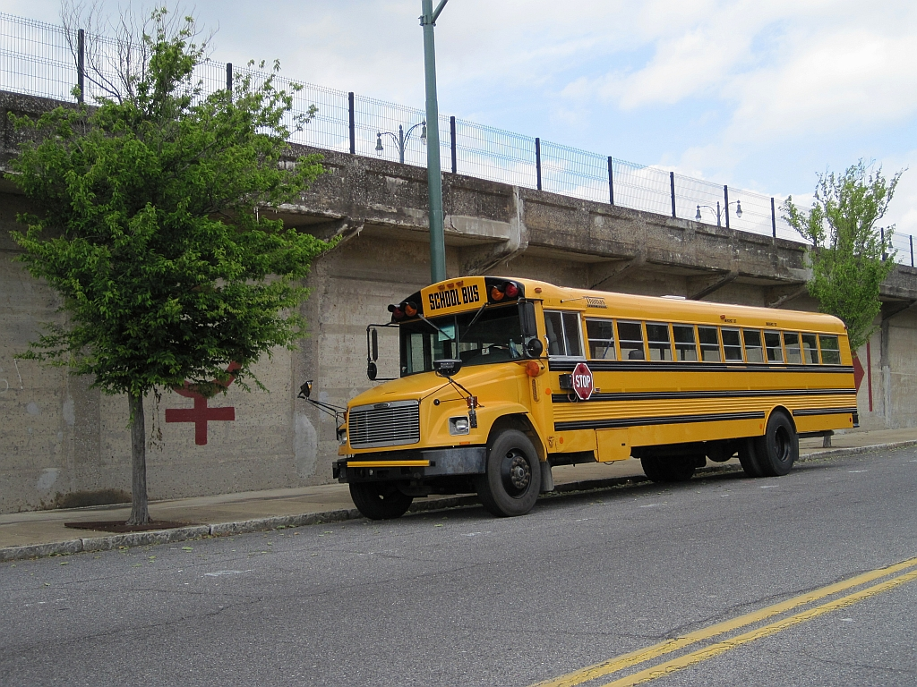 Memphis, Tennessee School bus